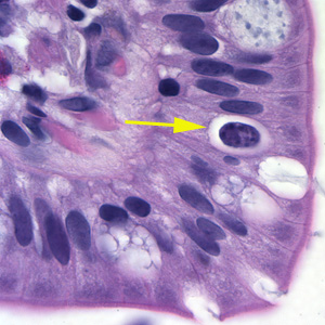 An oocyst of Cystoisospora belli in the epithelial cell of a mammalian host stained with hematoxylin and eosin. The oocyst is marked with yellow arrow.